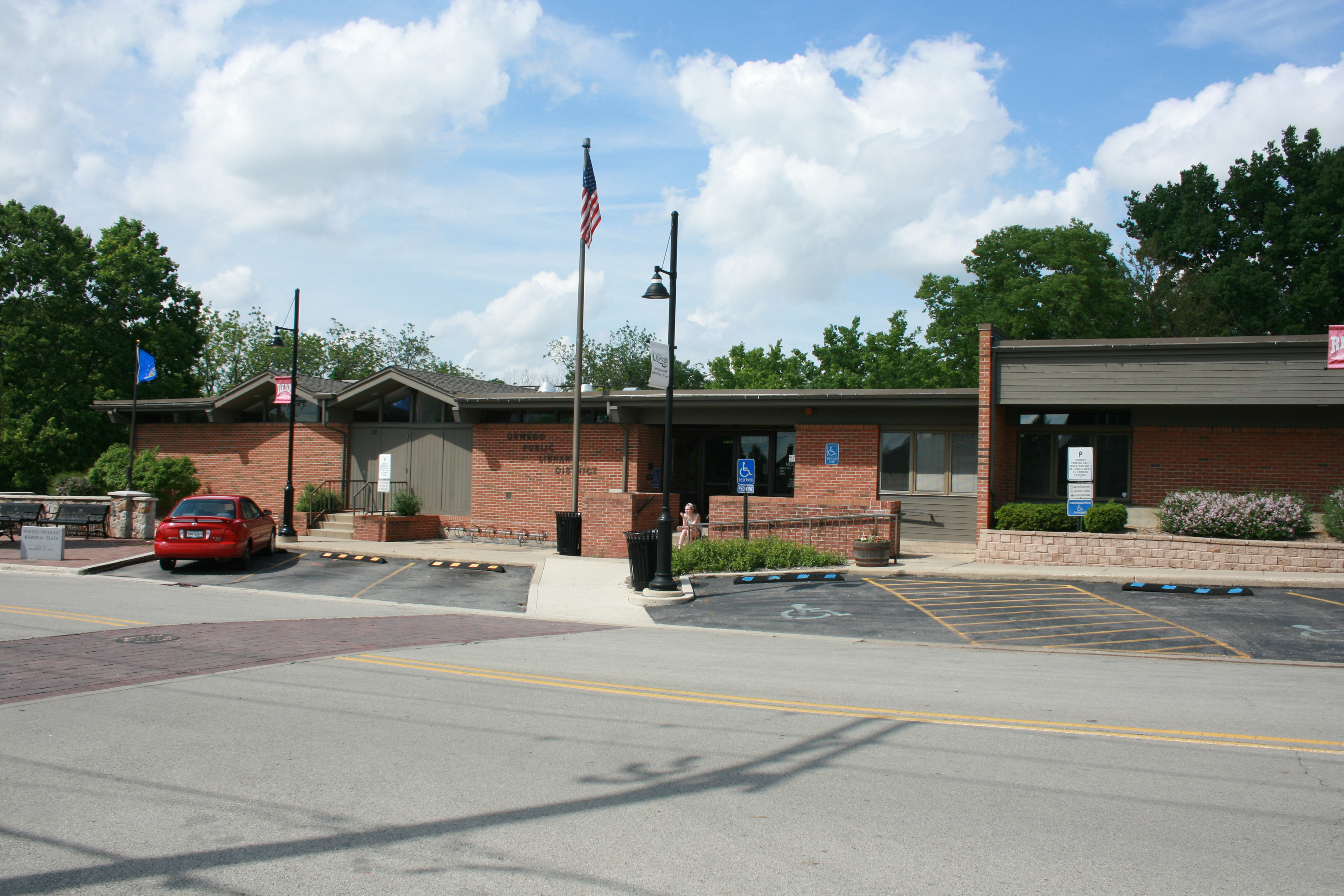 Oswego, Illinois - library